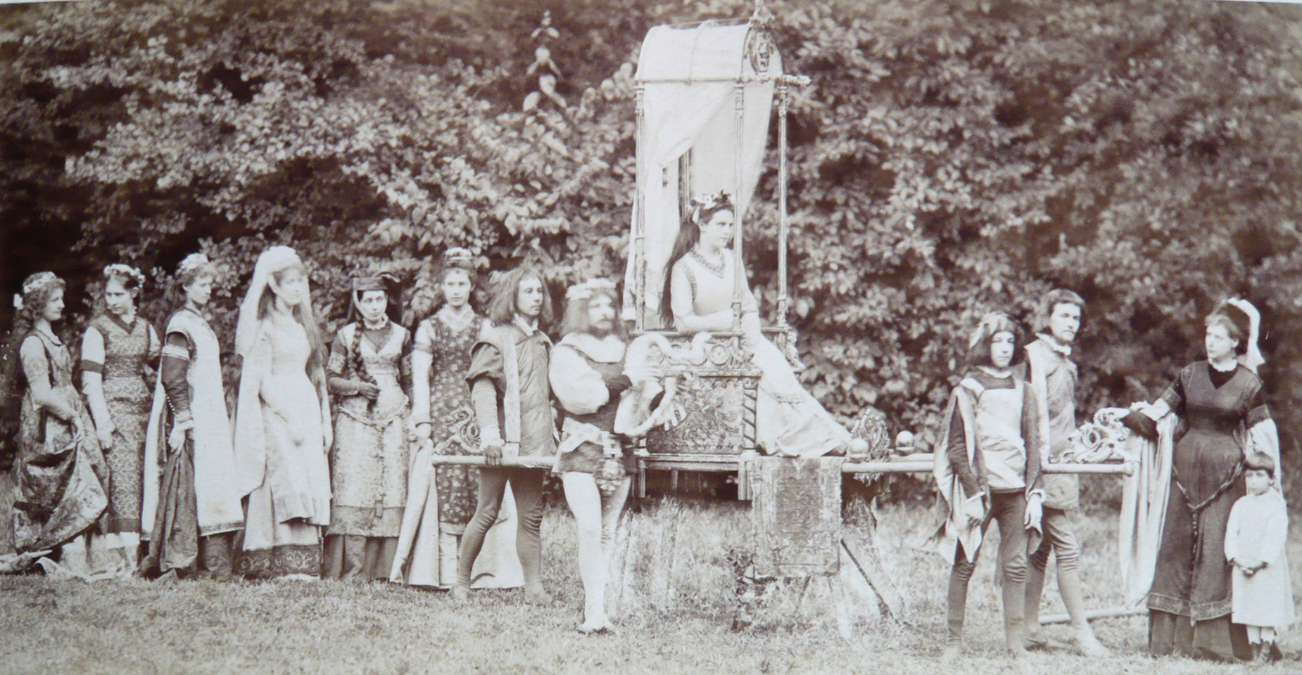 Photo of the Festival of the "Malkasten Düsseldorf" to commemorate the visit of Emperor Wilhelm I., directed by Carl Hoff (1838-1890)